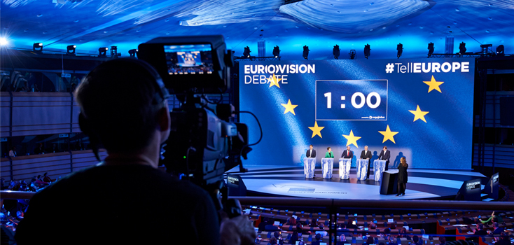 The first Eurovision Debate took place in May 2014 and was the first-ever live televised format to bring democratic political debate to a pan-European level.